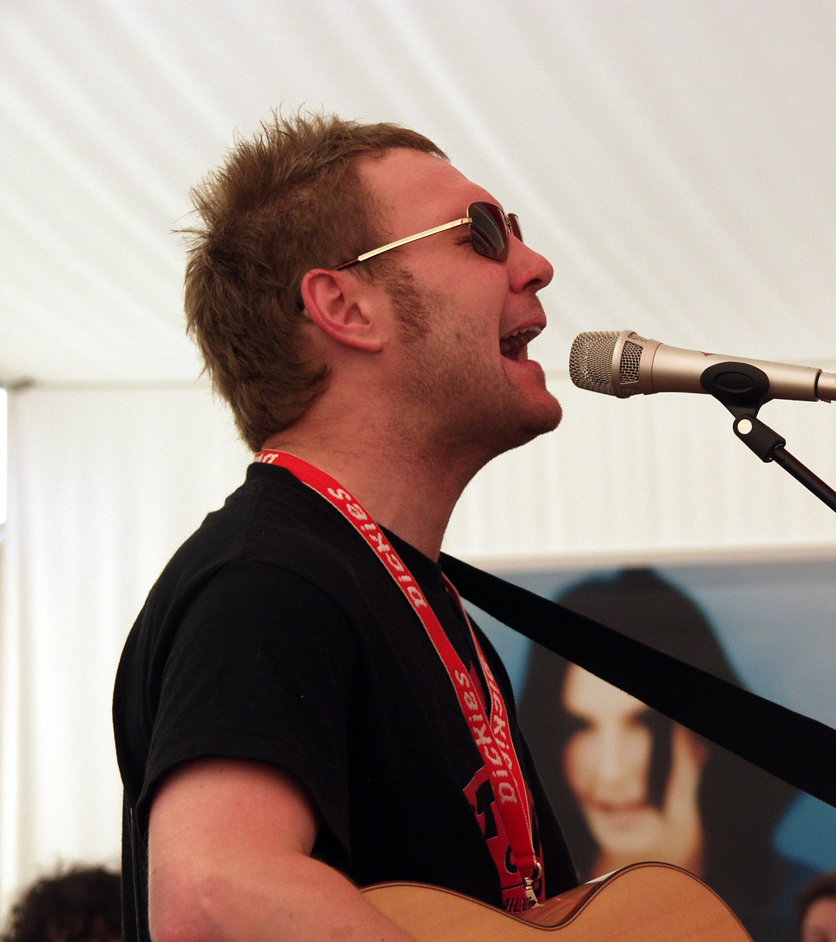 Acoustic set at V2003